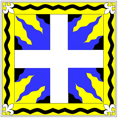 Reconstruction Ensign Swiss Regiment Kalbermatten, Savoy: white cross, surrounded by four yellow squares with three blue flames, full version.